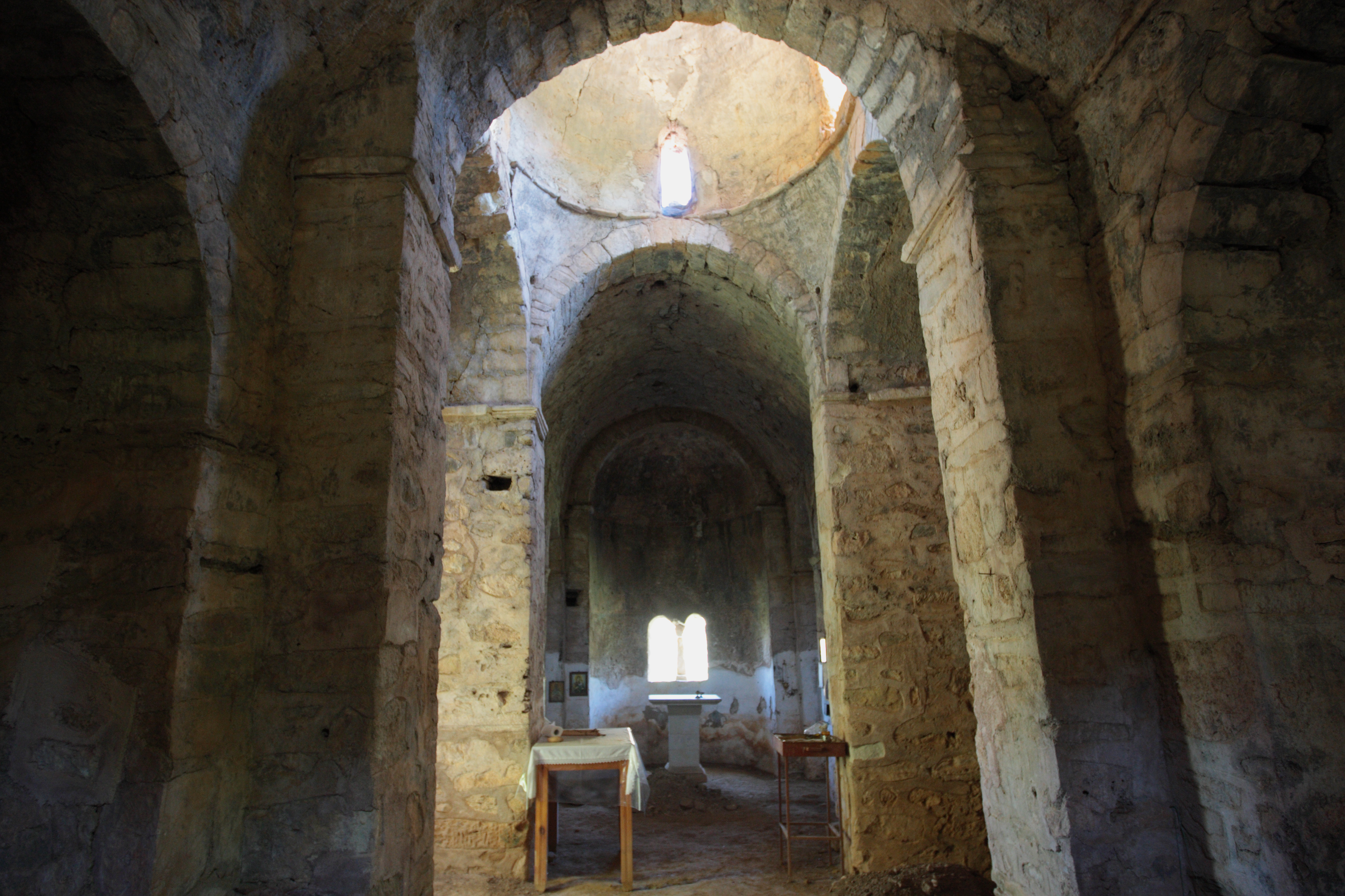 The church of Agios Eftihios, Chromonastiri Village, Crete